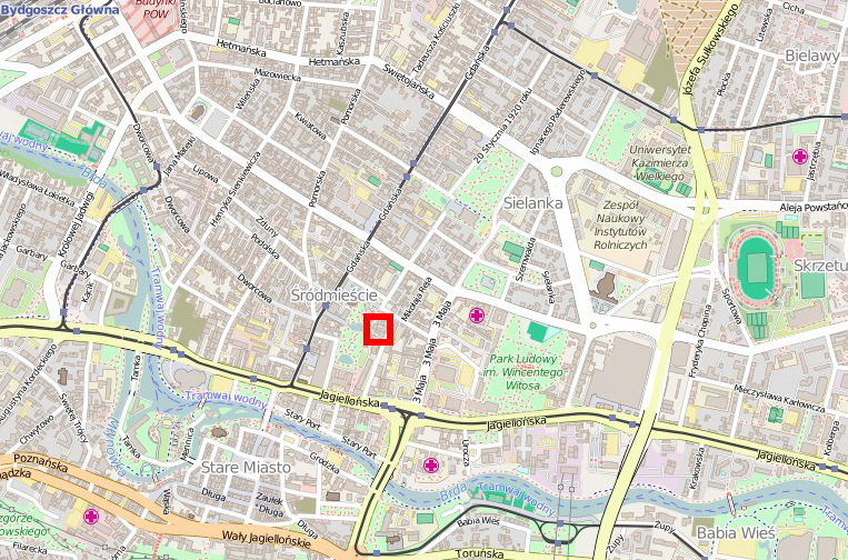 Map with location of the hotel